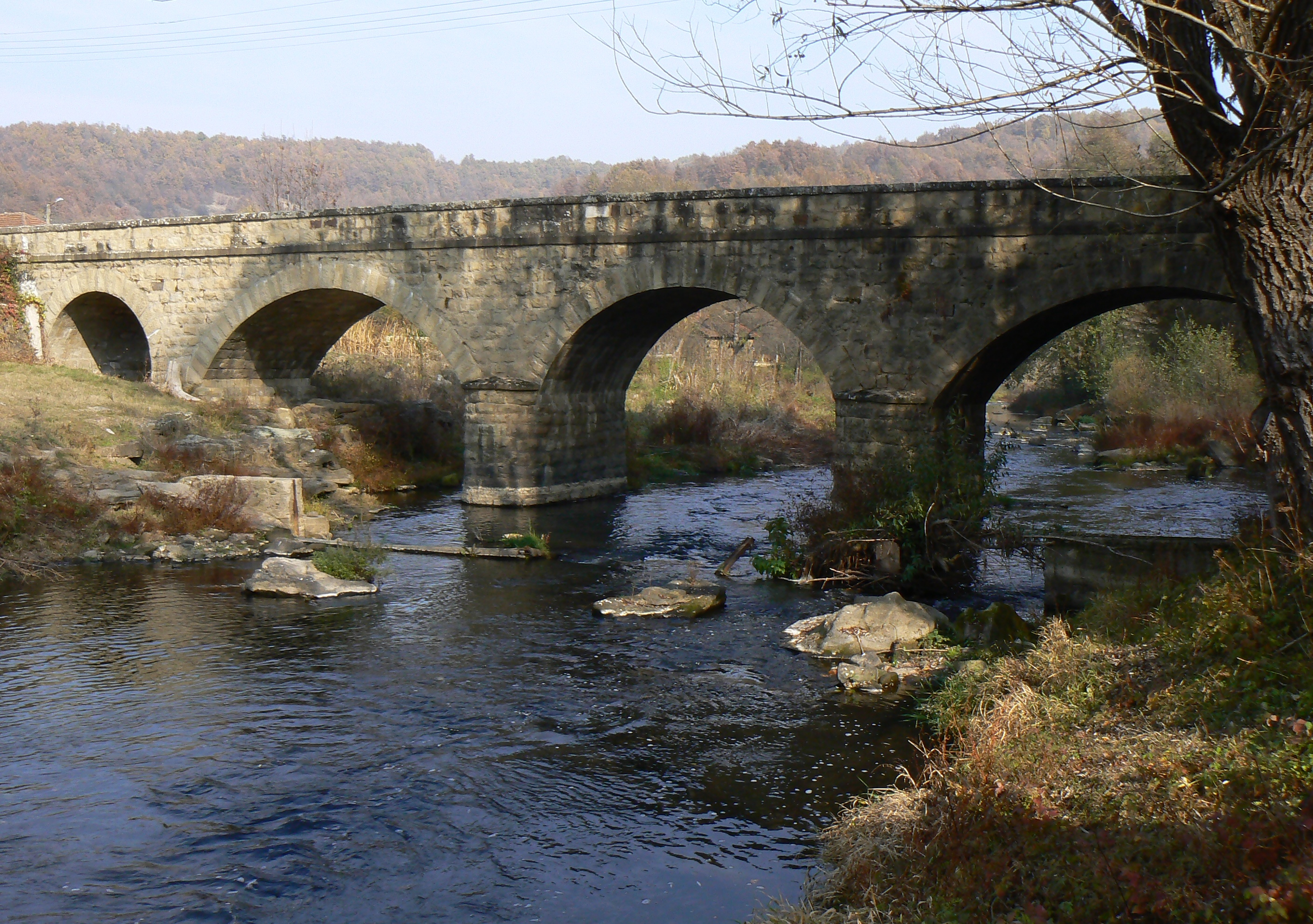 The bridge over Bebresh river flowing through the Bulgarian village Bozhenitsa.